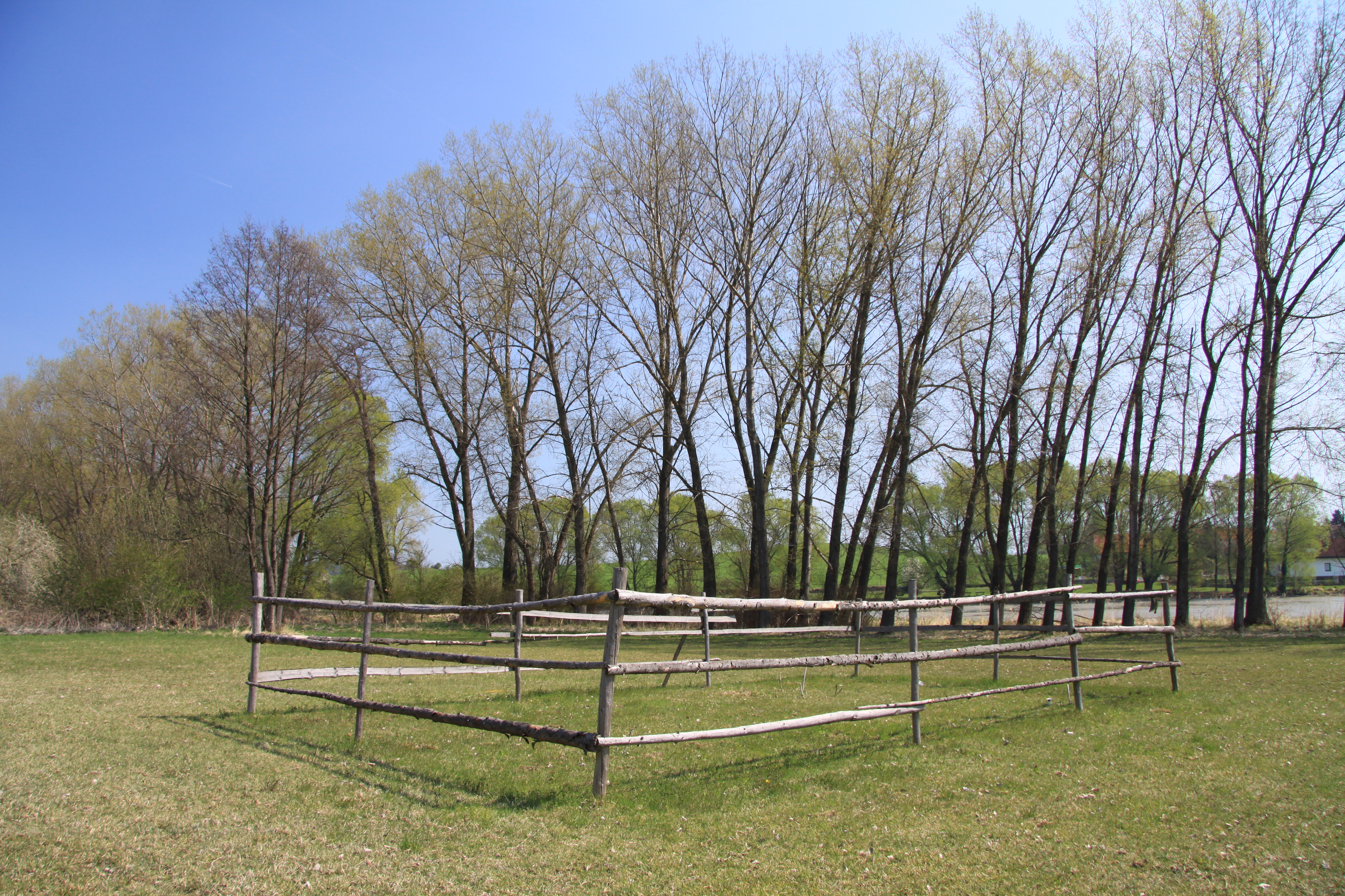 National natural monument Rovná, Strakonice District, Czech Republic